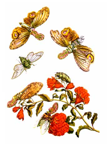 Colored copper engraving from Metamorphosis insectorum Surinamensium, Plate XLIX.